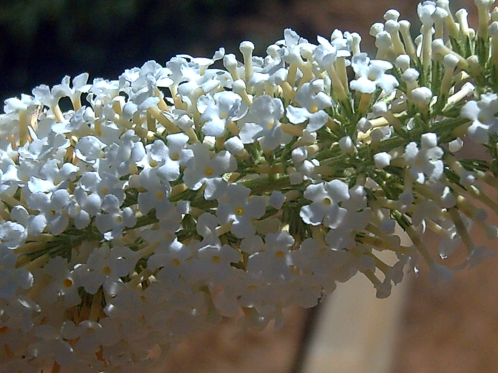 A own work release by Javier martin, picture gathered Dehesa Boyal de Puertollano up, 3 Juni 2006, Puertollano Spain. Donated to Wikipedia. A white Buddleja davidii flower.